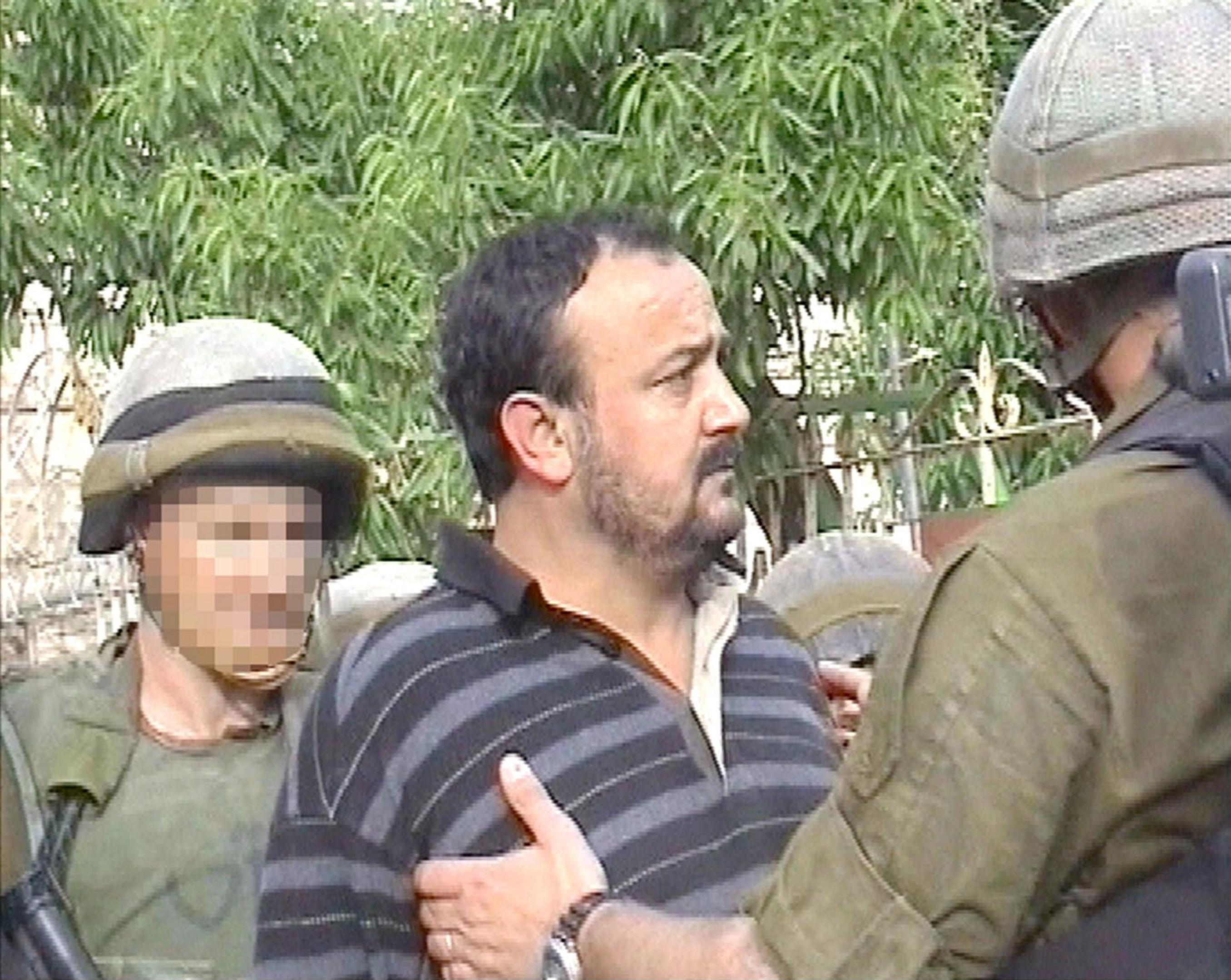 HEAD OF THE TANZIM MARWAN BARGUTI CAPTURED BY IDF SOLDIERS IN RAMALLAH, DURING OPERATION "DEFENCE SHIELD" FOR ELIMINATION OF PALESTINIAN TERROR.